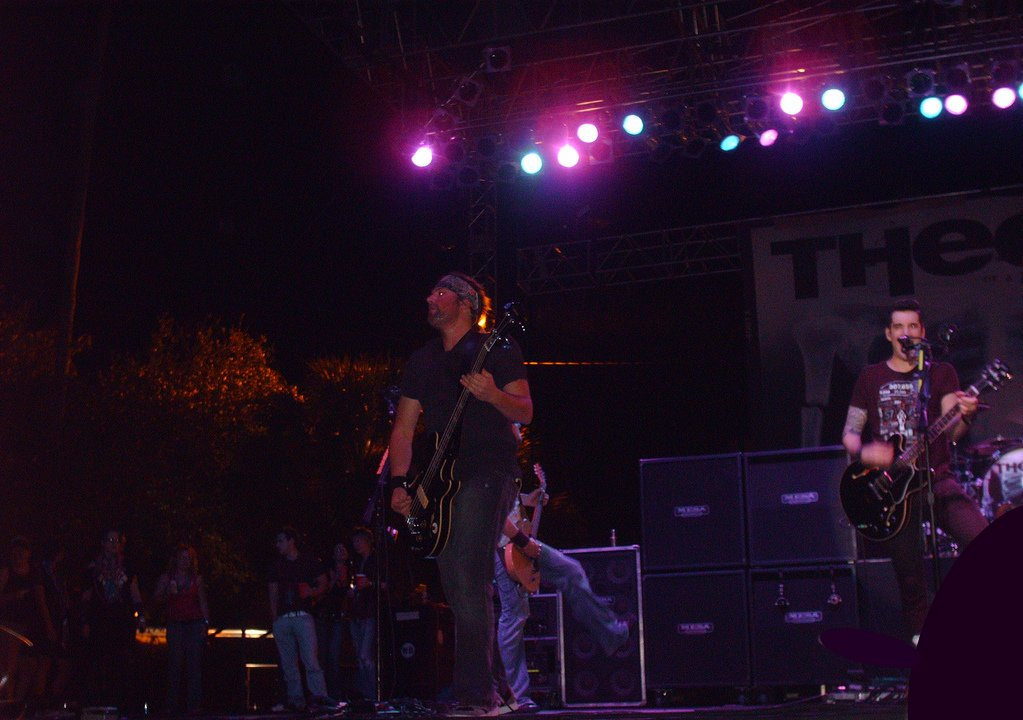 Theory of a Deadman performing.